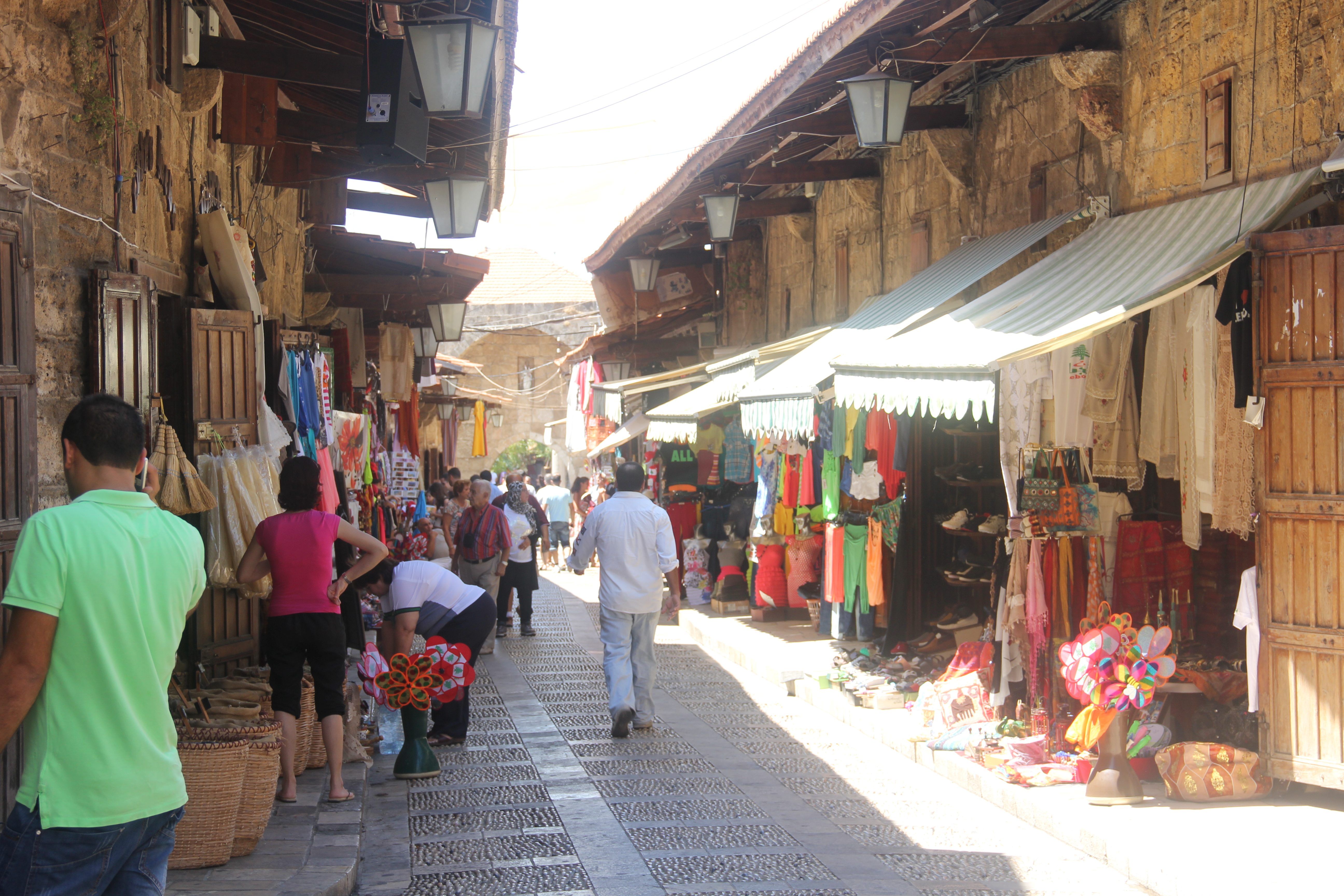 Old Souk in Byblos (JBeil)